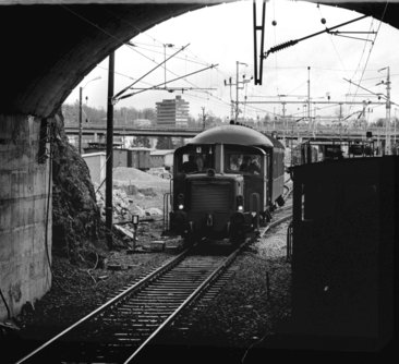 Opening of the Lieråsen Tunnel on the Asker side.